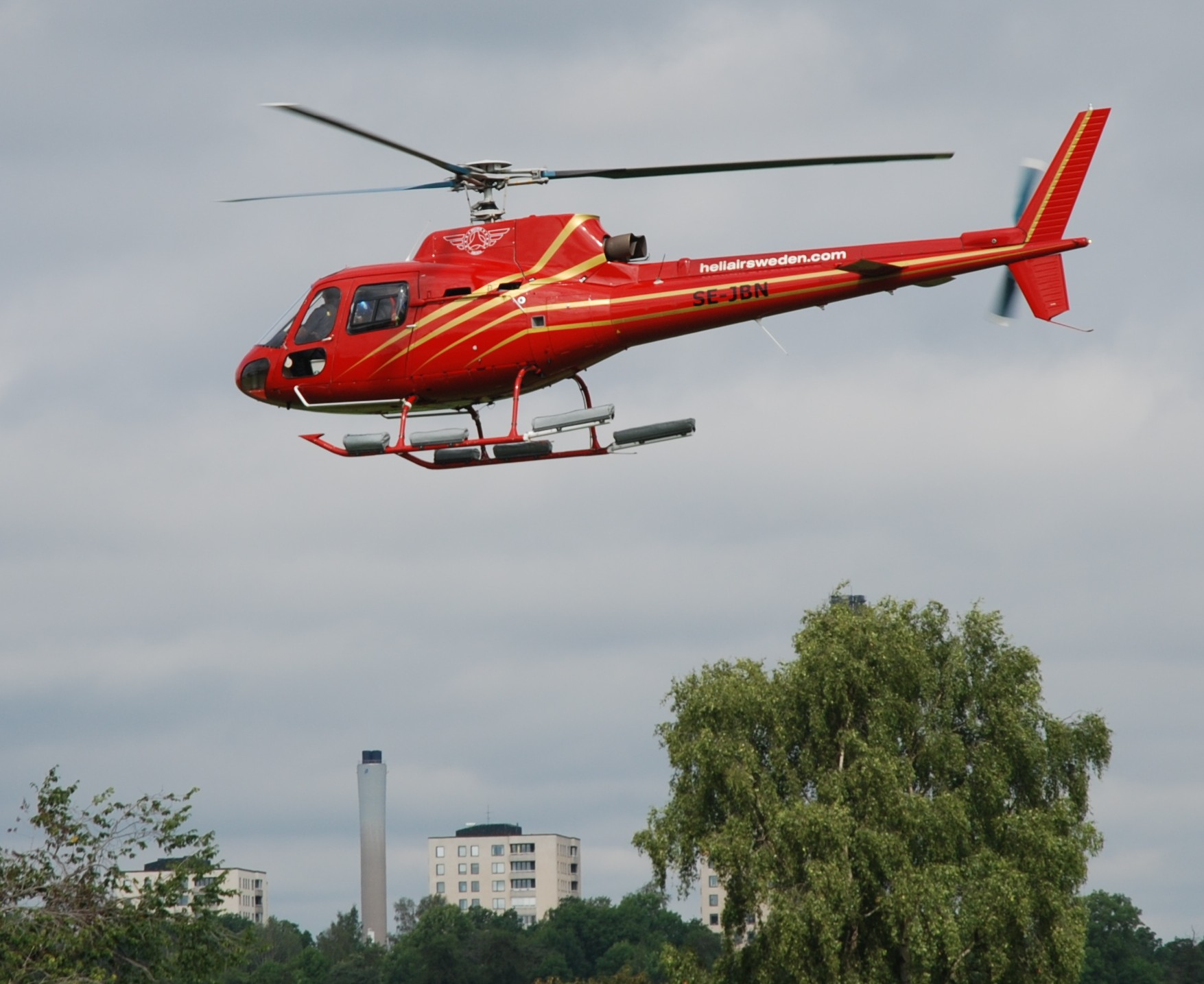 Eurocopter AS350 B Ecureuil, SE-JBN from Heliflyg in Västerås, above Gärdet in Stockholm, Sweden, August 2012